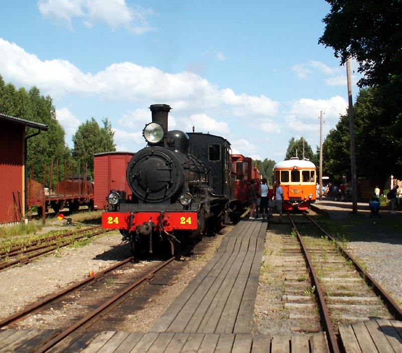 Anten-Gräfsnäs Vintage Railroad